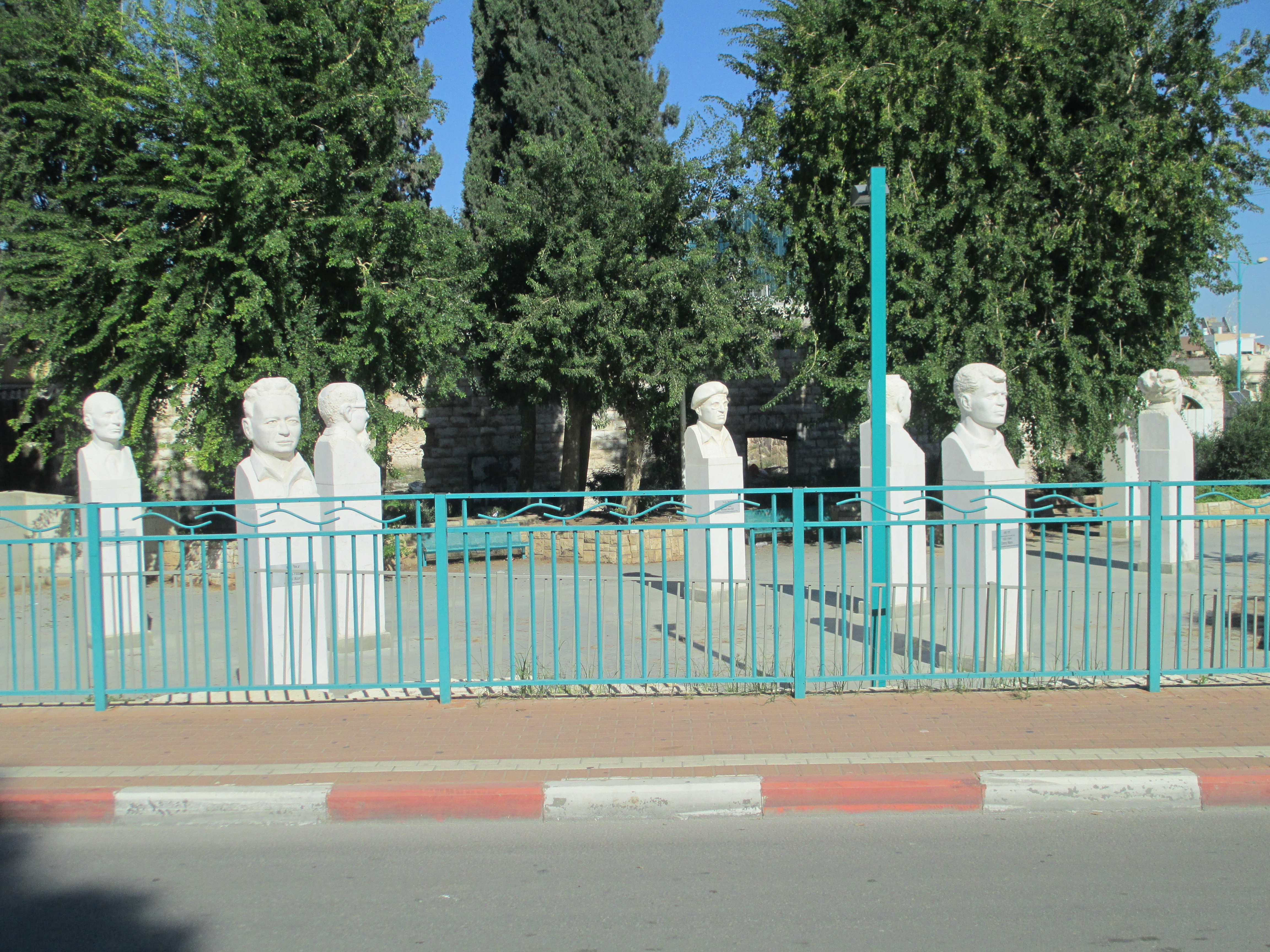 Operation Danni square in Ramla